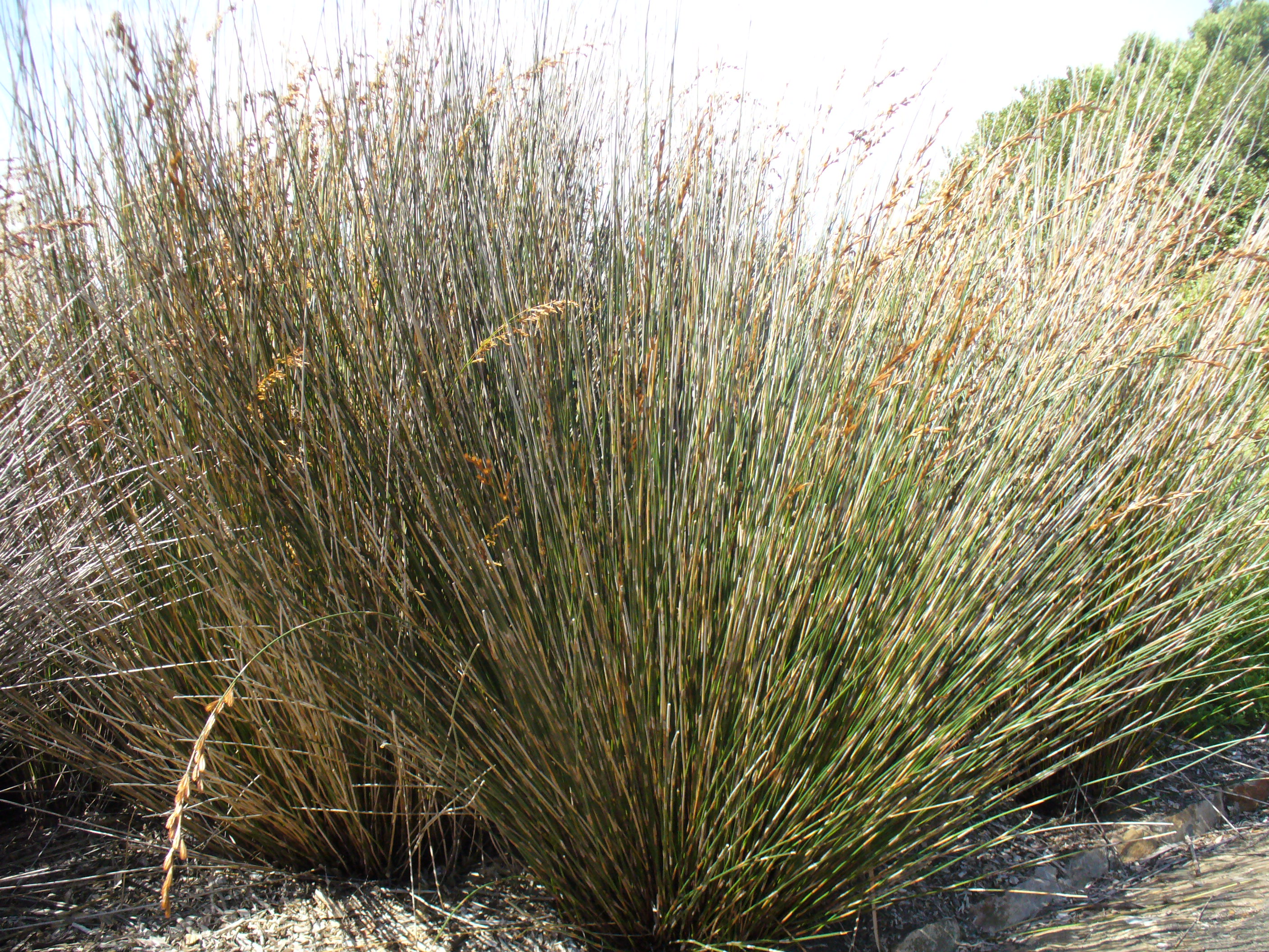 Albertina thaching reed (Thamnochortus insignis)